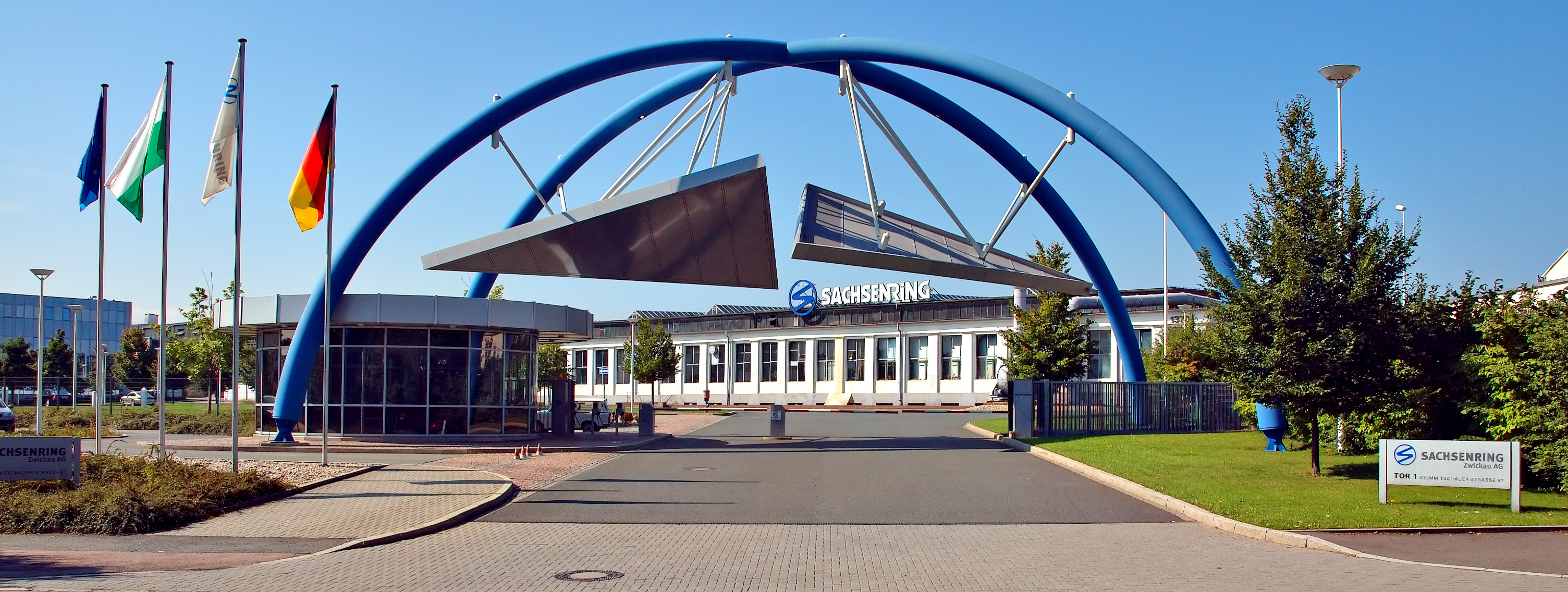 This image shows the buildings of the Sachsenring company in Zwickau.